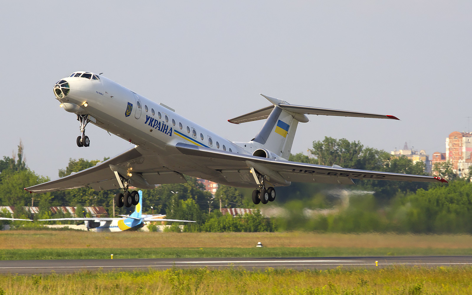 A Ukrainian Government Tu-134 departs from Kyiv's Boryspil Intl Airport